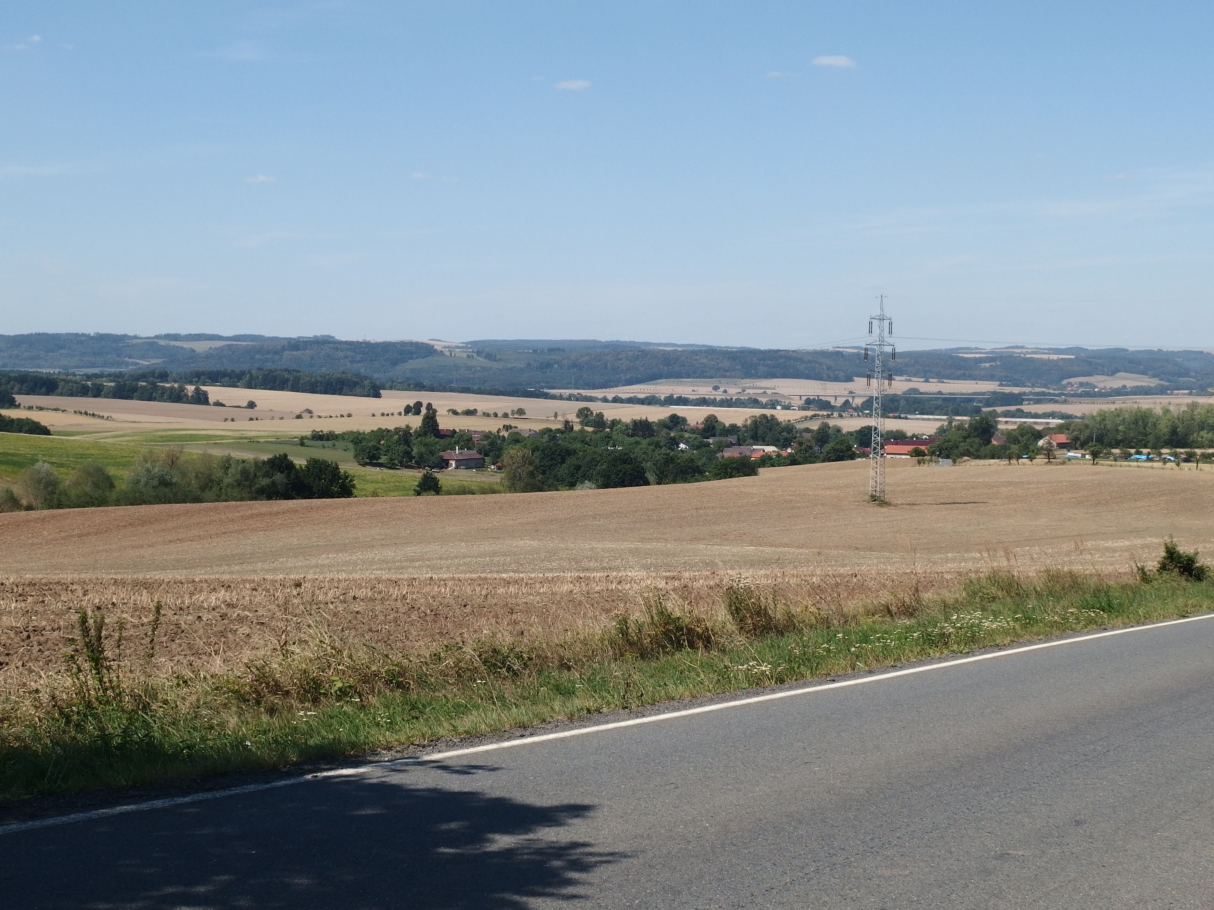 Bělotín, Přerov District, Czech Republic, part Kunčice.